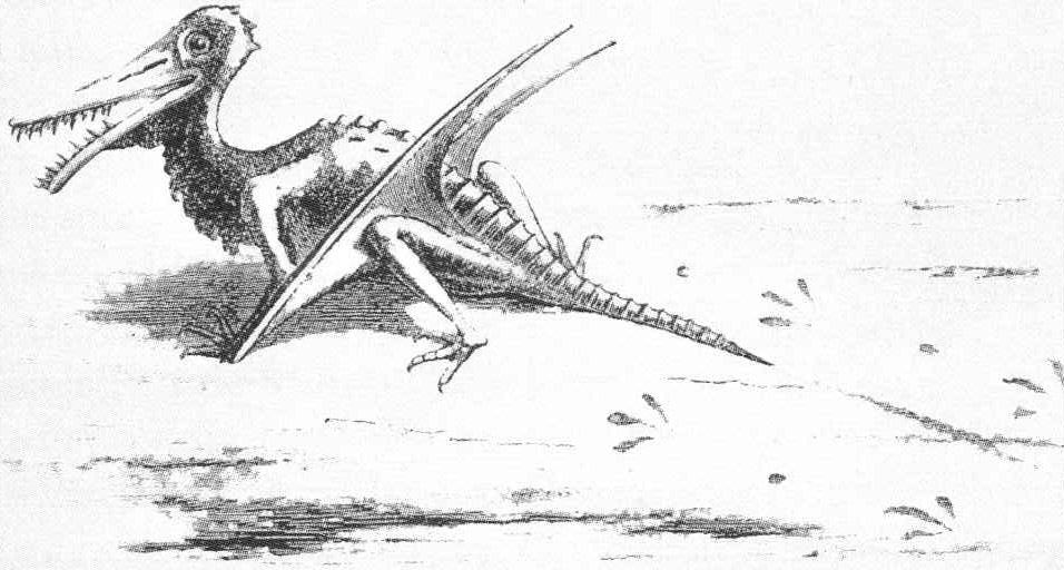 A reconstruction of the pterosaur Rhamphorhynchus by French illustrator Édouard Riou (1833-1900), as copied by Louis Figuier's (1819-1894) in his book La Terre avant le Déluge (1863). This reconstruction explains fossil tracks in the German Solnhofen Limestone. It was later discovered that the real track maker was the horseshoe crab Mesolimulus.